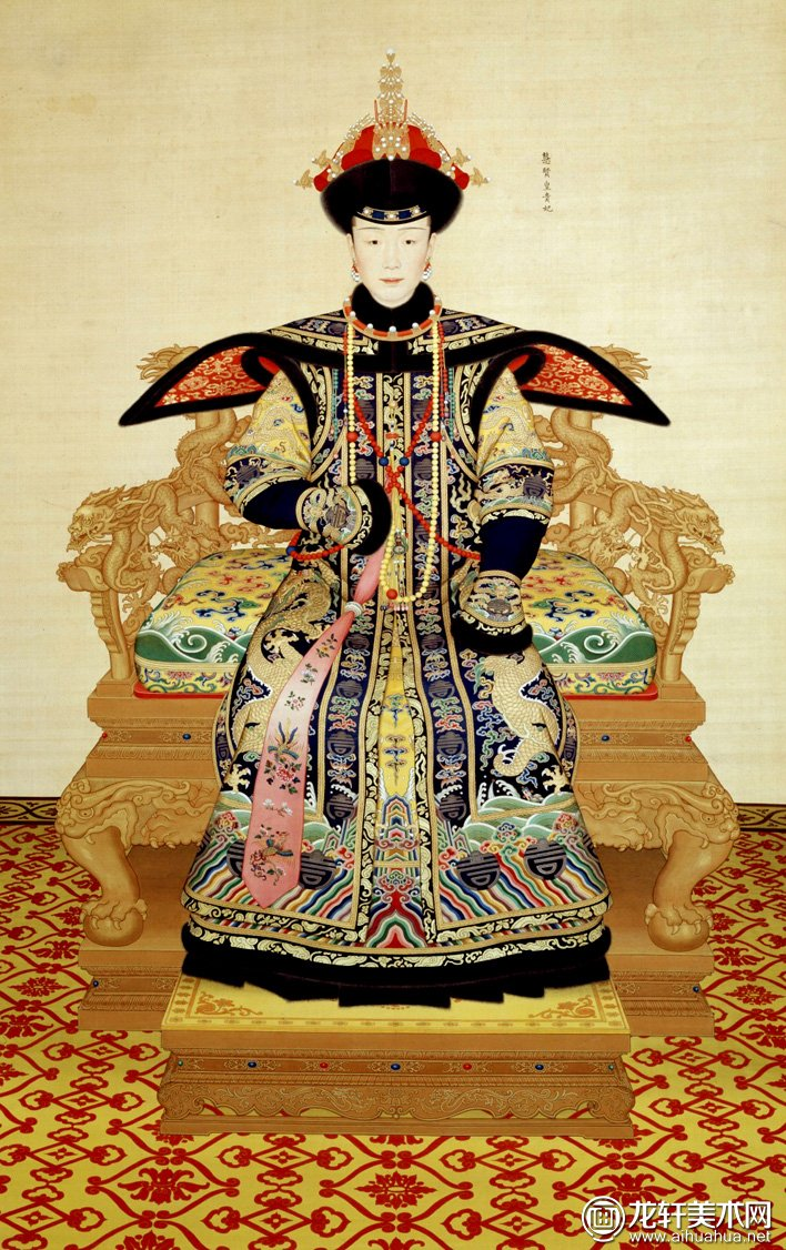 The portrait of Imperial Noble Consort Huixian, a consort of the Qianlong Emperor of the Qing dynasty.